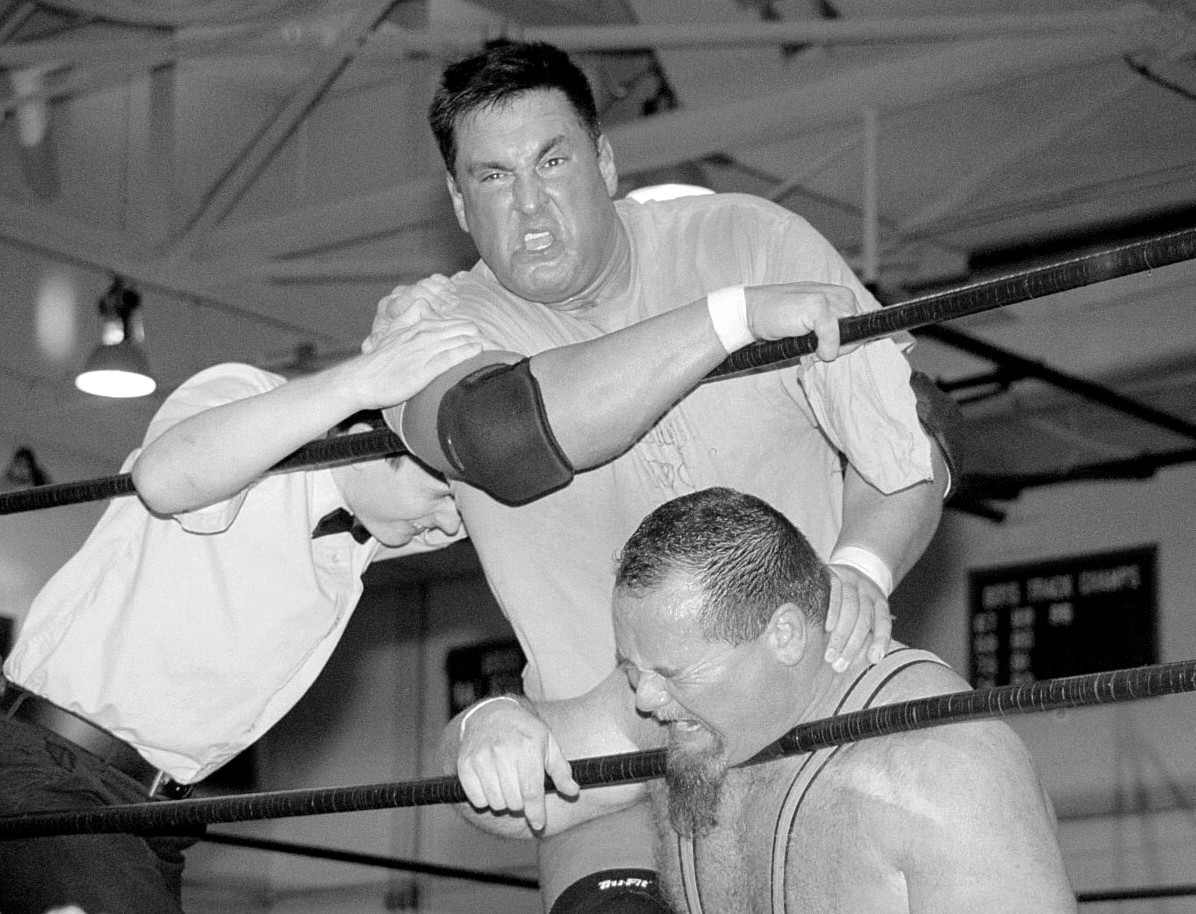 Jim "The Anvil" Neidhart getting hammered by Salvatore Sincere.